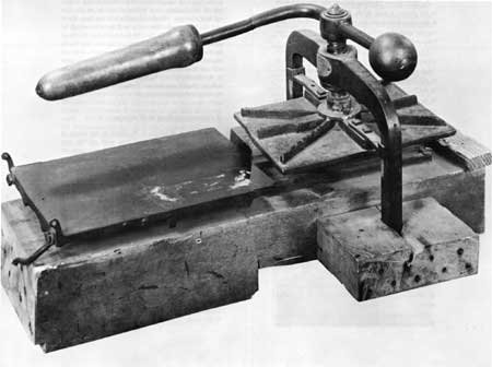 The first printing press in the Pacific Northwest.